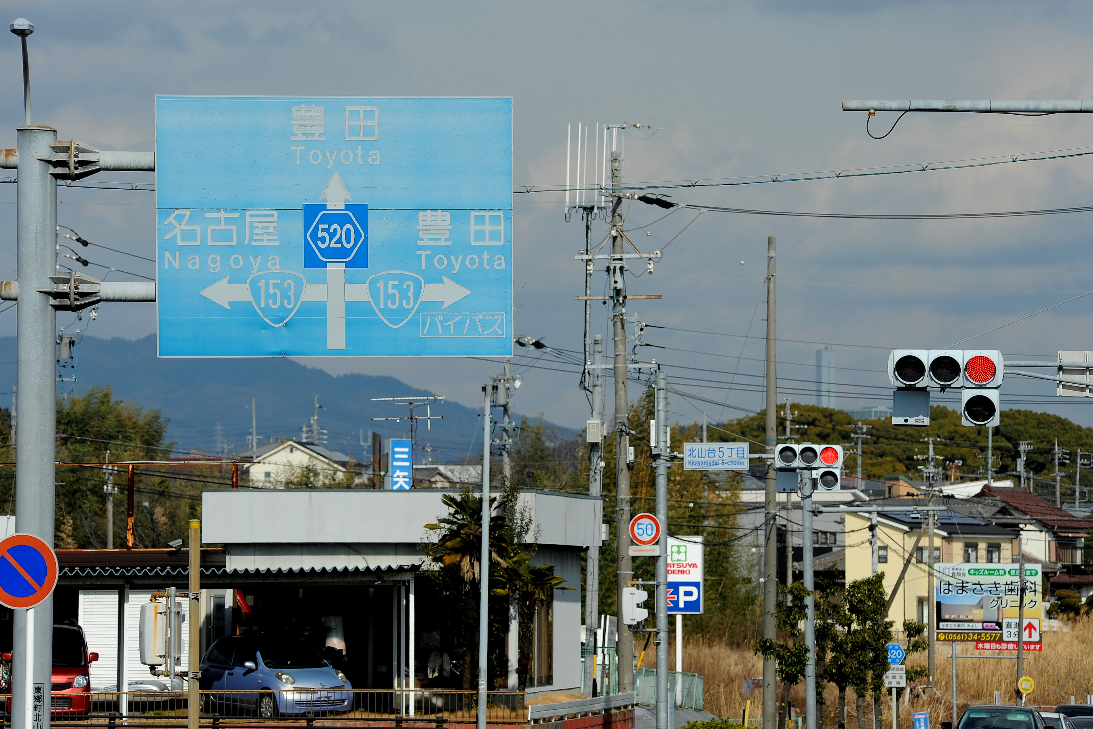 Aichi Prefectural Route 520, Togo, Aichi